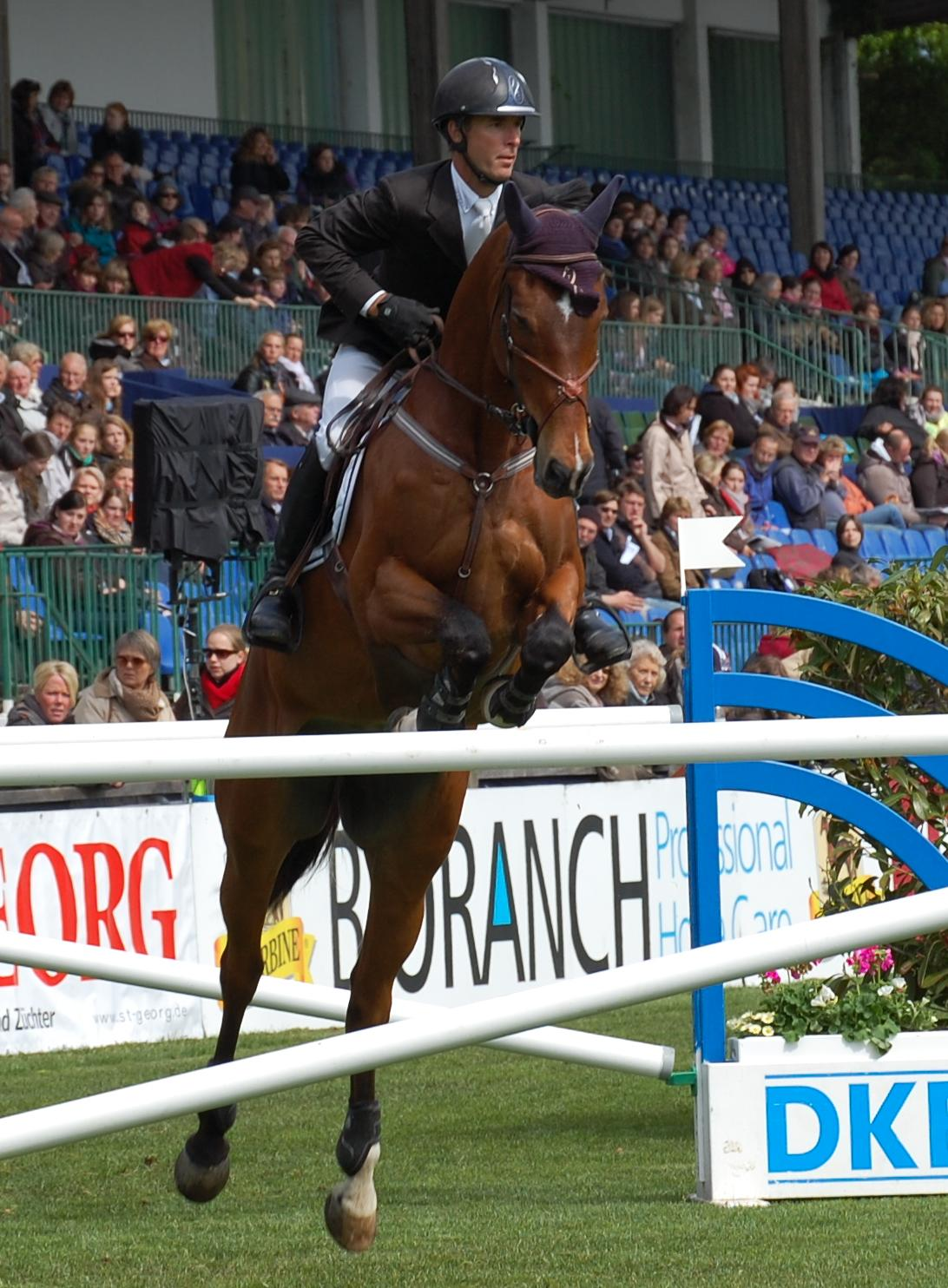 US-american rider Richard Spooner with Apache, 1st qualifier to the German show jumping derby in Hamburg 2012 (CSI 3*)